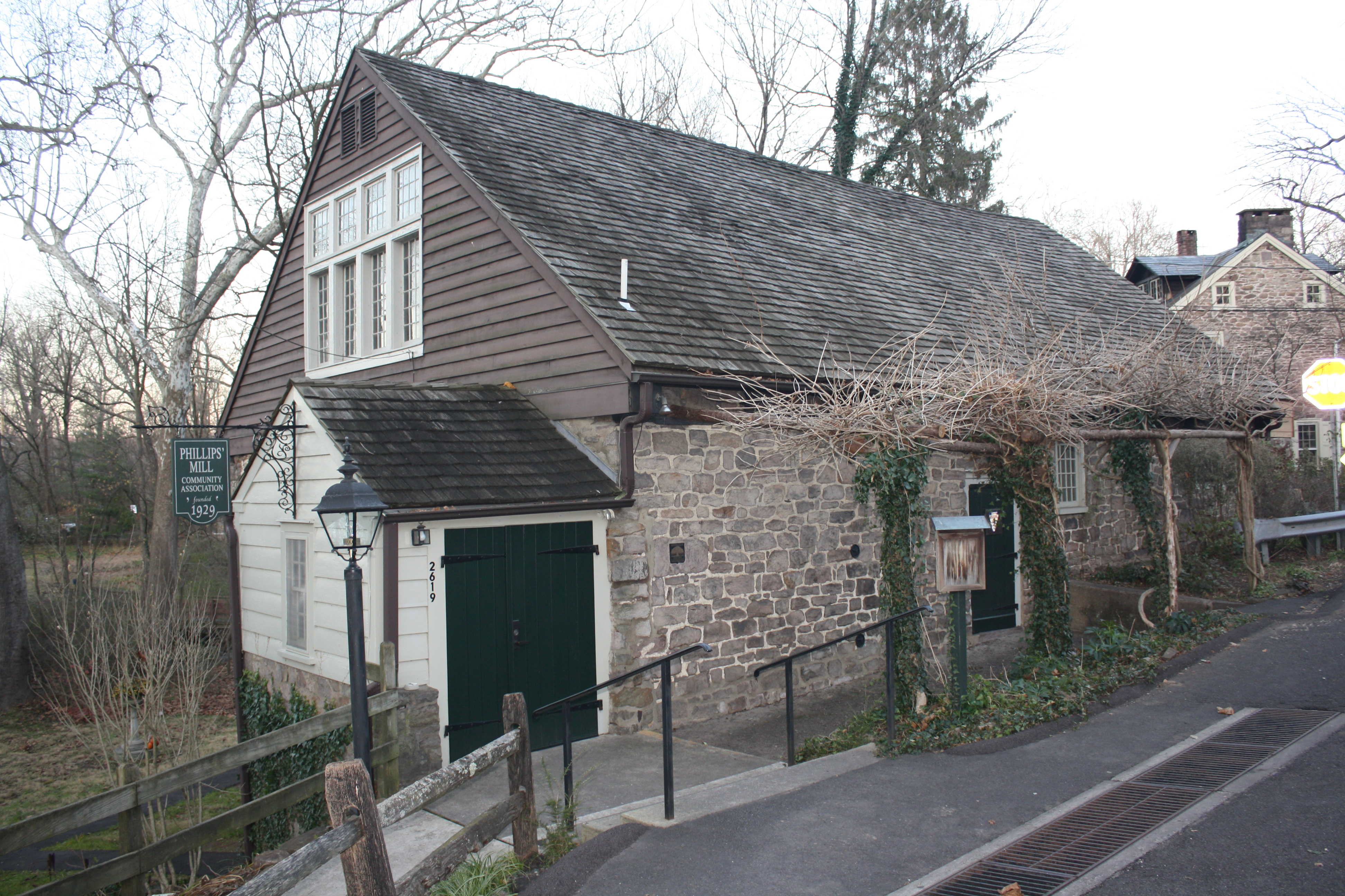 Phillips Mill Historic District is a national historic district located in Solebury Township, Bucks County, Pennsylvania. Object location40° 22′ 58.08″ N, 74° 58′ 09.84″ W